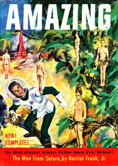 Cover of Amazing Stories, June-July 1953